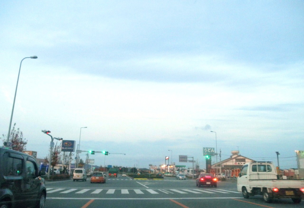 Nakagirai 前原東三番越 Matsushigetown Tokushimapref Route11 Yoshinogawabypass.JPG